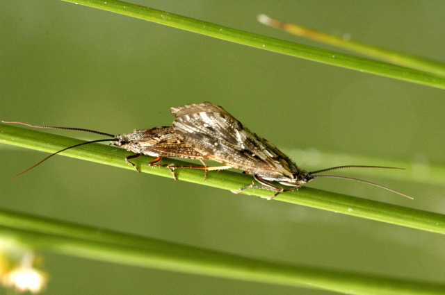 Picture taken in Commanster, Belgian High Ardennes . Species: Phryganea bipunctata couple